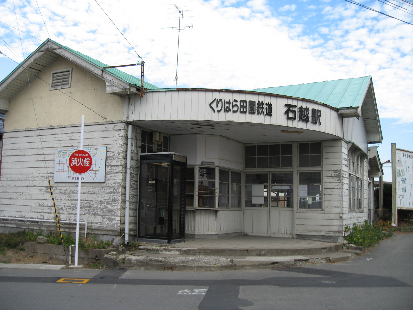 Ishikoshi Station of Kurihara Den-en Railway